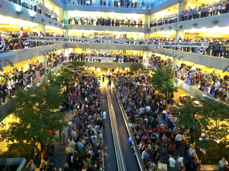 veterans return to a welcome home celebration at RDU after a Flight of Honor trip to Washington DC to see the WWII memorial